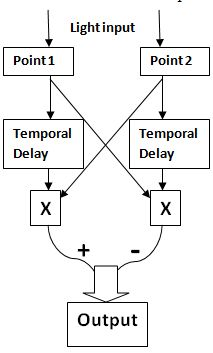 The model is composed of two mirror subunits at which the input received is sent to the other subunit to be multiplied by the input received at that subunit passed through a time delay. The multiplied values at the two subunits are subtracted from one another to produce an output.